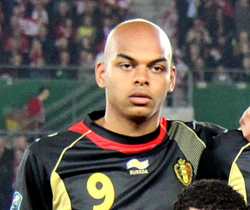 Marvin Ogunjimi, cropped from Belgium against the Austrian national football team (0:2), 2011-03-25 in Vienna (Ernst-Happel-Stadion